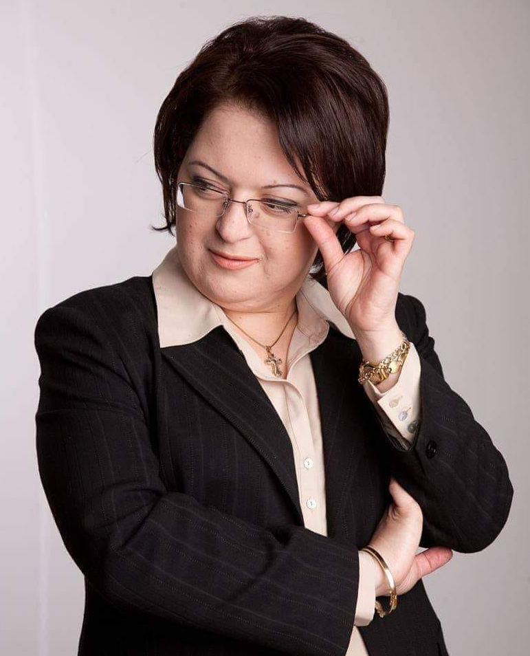 Gayane at work